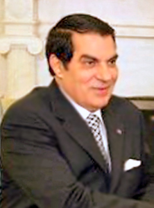 Tunisian President Zine Al-Abidine Ben Ali at a visit to George W. Bush, February 2004